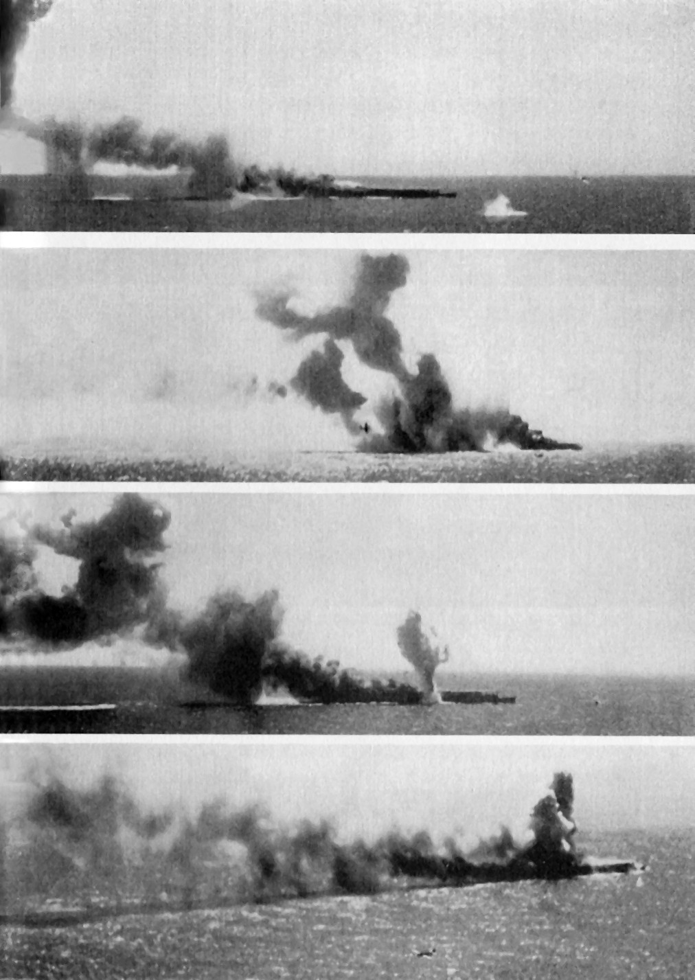 The Japanese light carrier Shoho under attack by U.S. Navy planes on 7 May 1942 during the Battle of the Coral Sea.